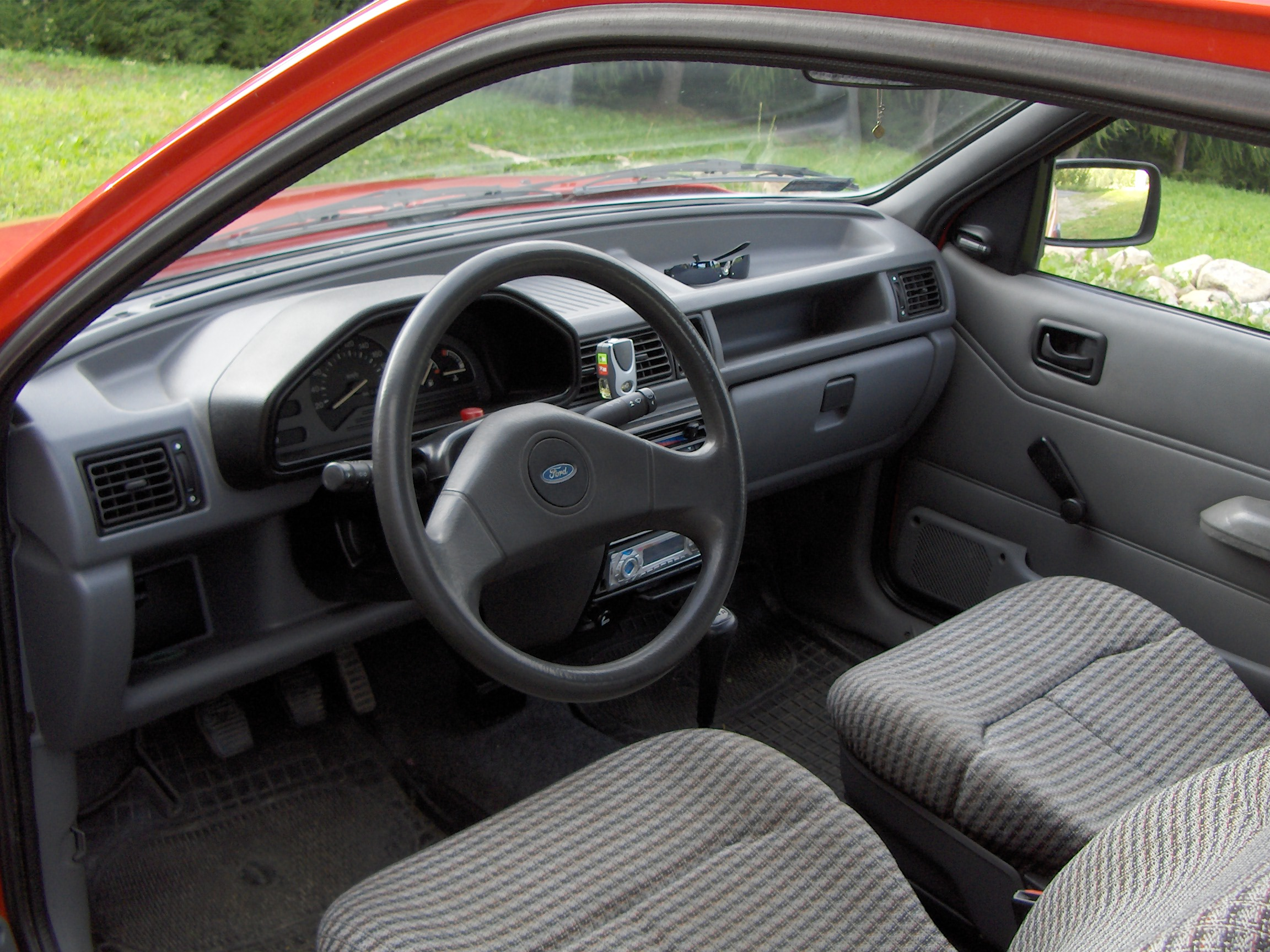 Ford Fiesta Mk 3 1991. Interior .